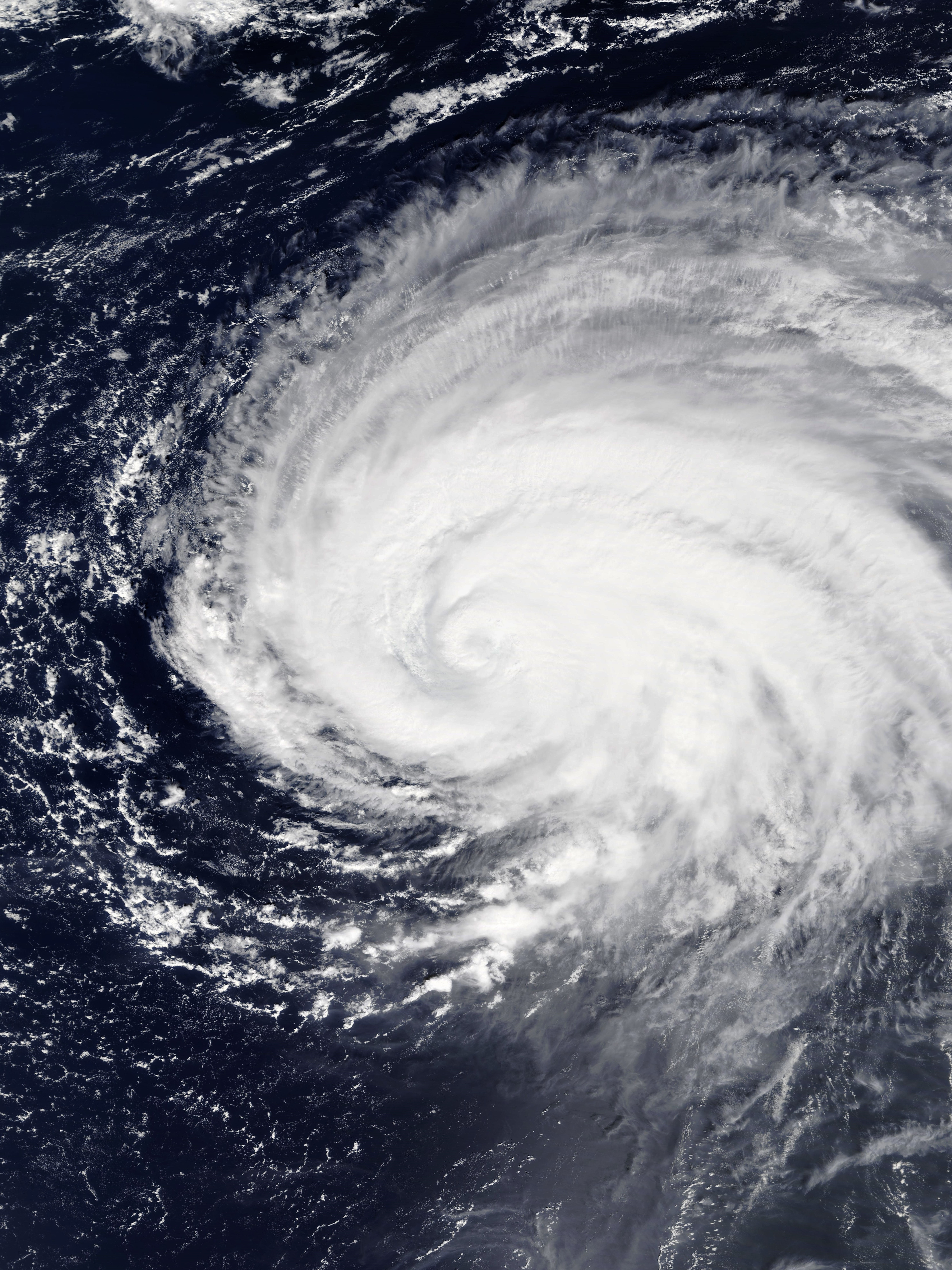 Hurricane Lorenzo over the Atlantic Ocean on 29 September 2019, a few hours after peak intensity. At the time of the image, Lorenzo was a large and very powerful Category 4 major hurricane, with one-minute sustained winds of approximately 130 kn (240 km/h; 150 mph). Lorenzo was the easternmost Category 5 hurricane on record in the Atlantic Ocean.